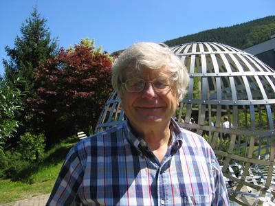 Photograph of the mathematician Nigel Kalton in Oberwolfach, 2004